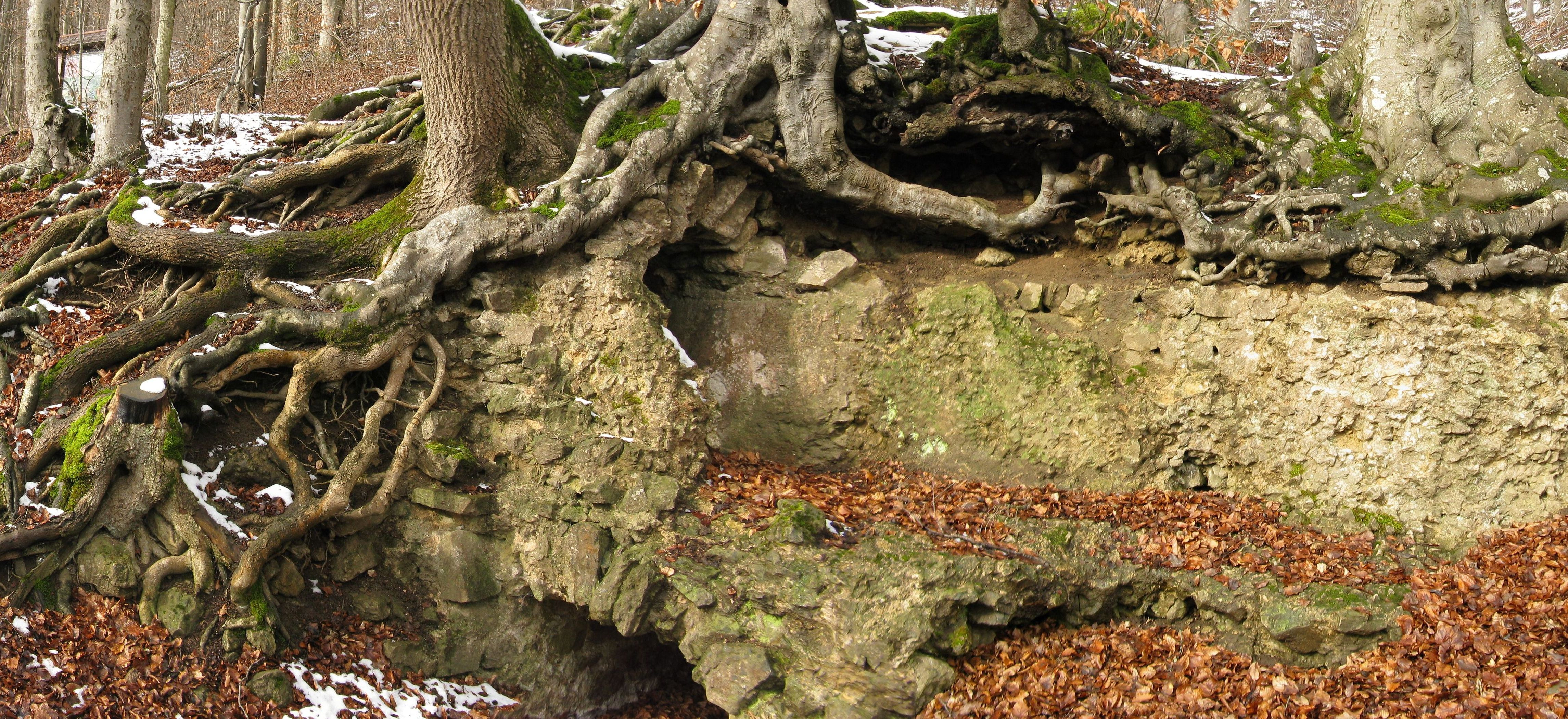 One of the few remaining original remains of the Eifel aqueduct to Cologne.